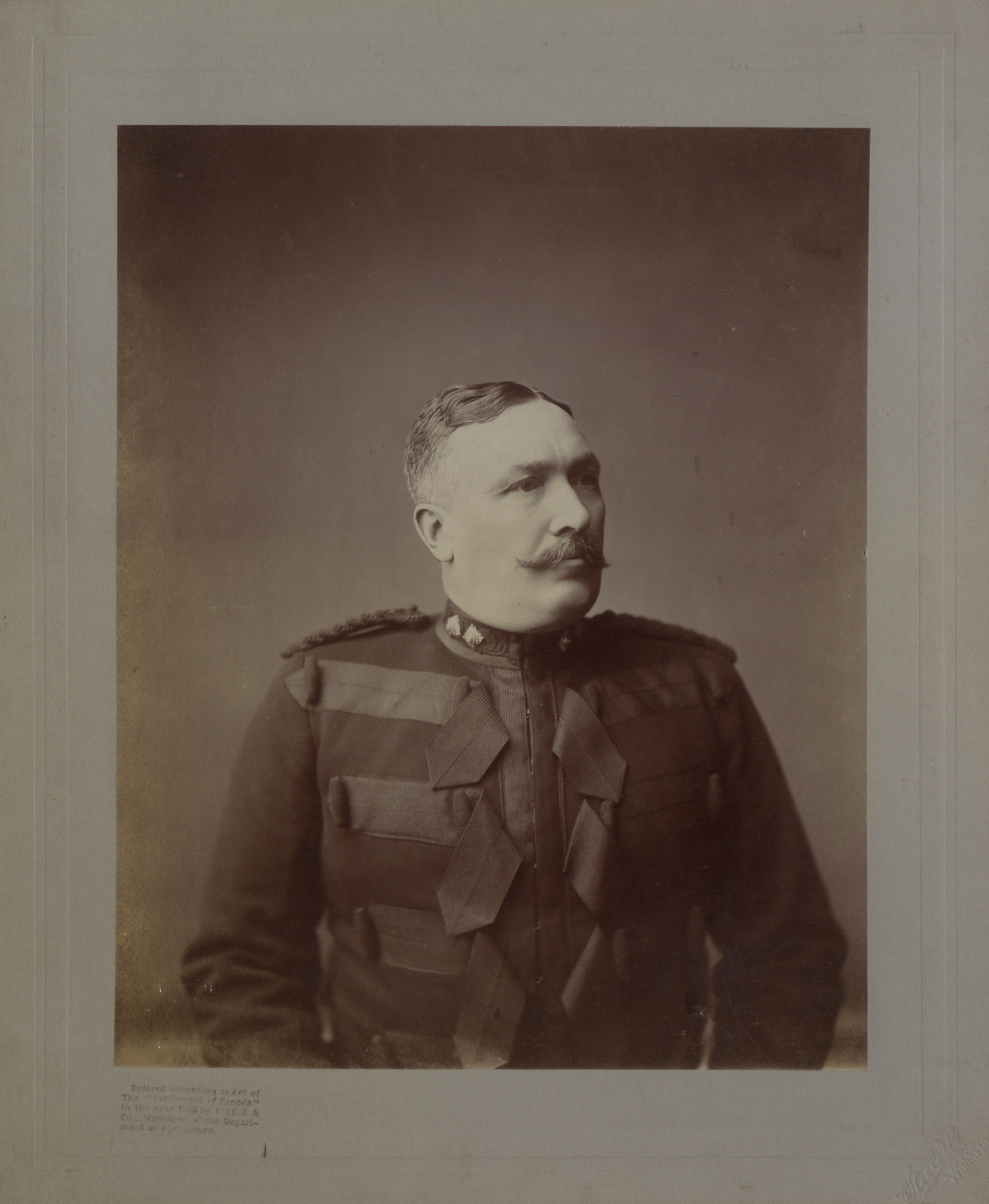 Col. S.B. Steele commanding Strathcona's Horse. No. 733.